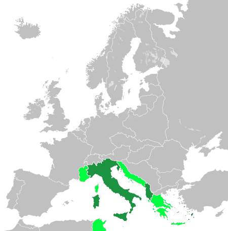 italy